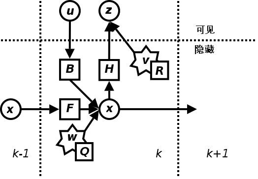 Diagram of the model underlying the Kalman filter, produced with dia and my own fair hands.